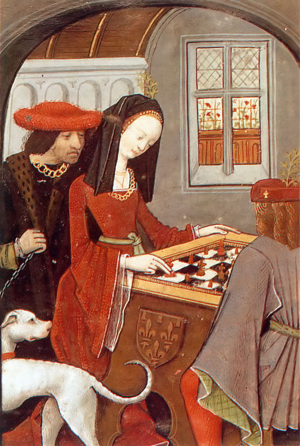 detail image of Charles d'Angoulême and Louise of Savoy playing chess from larger illustration in Source Manuscript